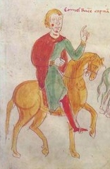 Richard, count of Acerra in Liber ad honorem Augusti